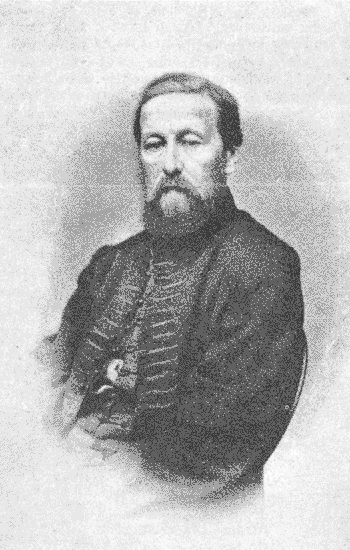 Portrait of Bedřich Moser (1821-1864), Czech editor of humorous and satiric magazines